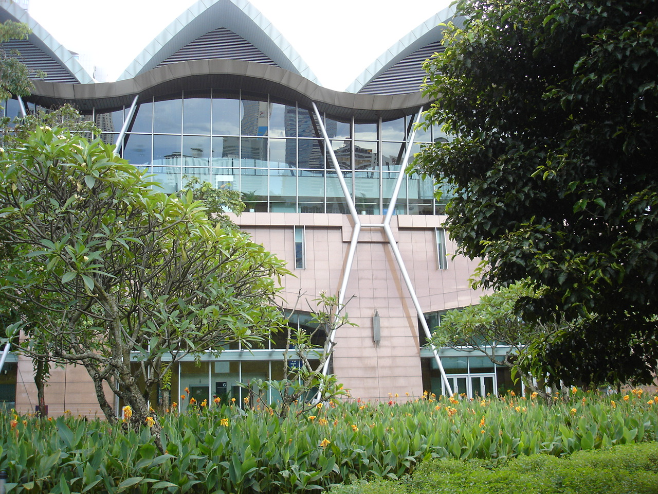 The view of the exterior of Kuala Lumpur Convention Center from KLCC Park.